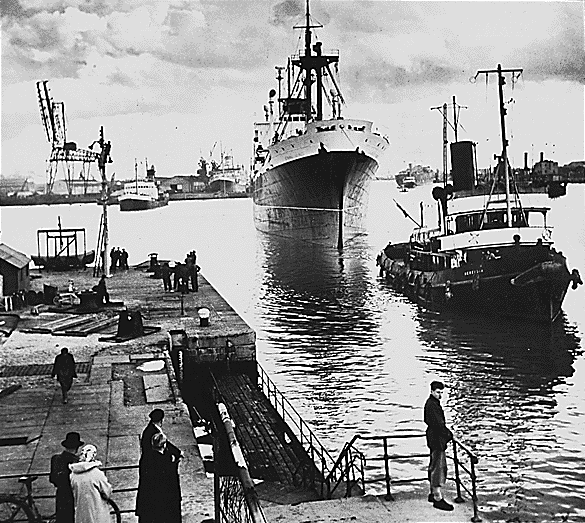 The harbor of Marseille, France.